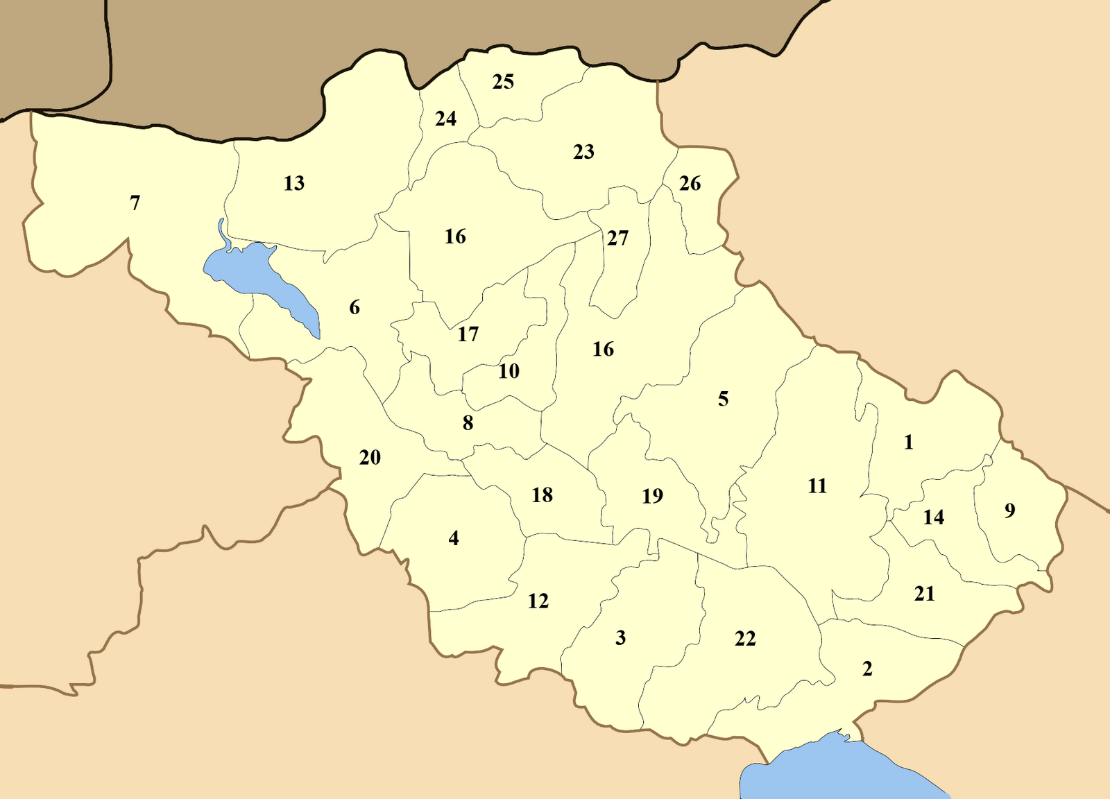 Map Serres perfecture in Greece. Numbered according to greek alphabetical order of municipalities and townships.